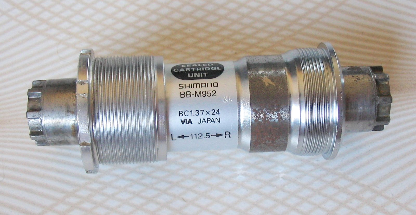 Shimano XTR bottom bracket